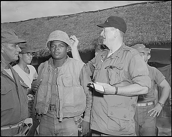 Vietnam. John Wayne signs Private First Class Fonsell Wofford's helmet during his visit to the 3rd Battalion, 7th Marines, at Chu Lai..: 06/20/1966